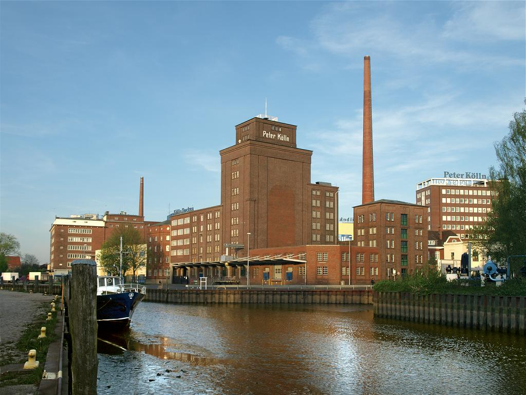 Elmshorn, Slesvic-Holstein (Germany): Kölln-Factory, photo 2008